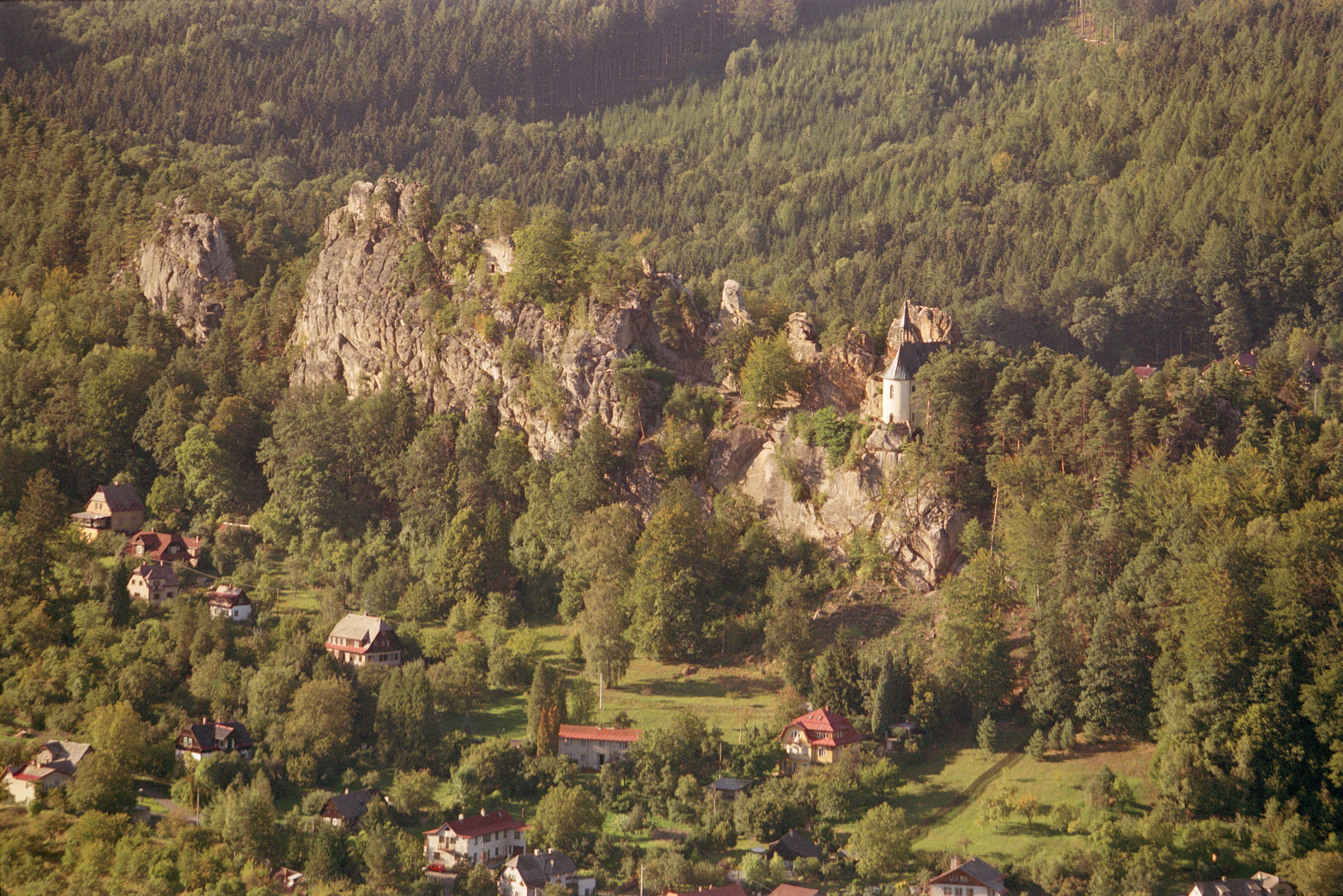 own picture, taken in late summer 2004 castle Vranov in Czech Republic with the pantheon, view from a hiking trail around the mountain Sokol